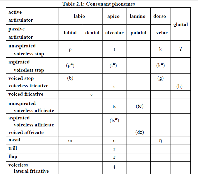 This table indicates the 13 consonant phonemes used in the language, as well as loan phonemes indicated in parenthesis